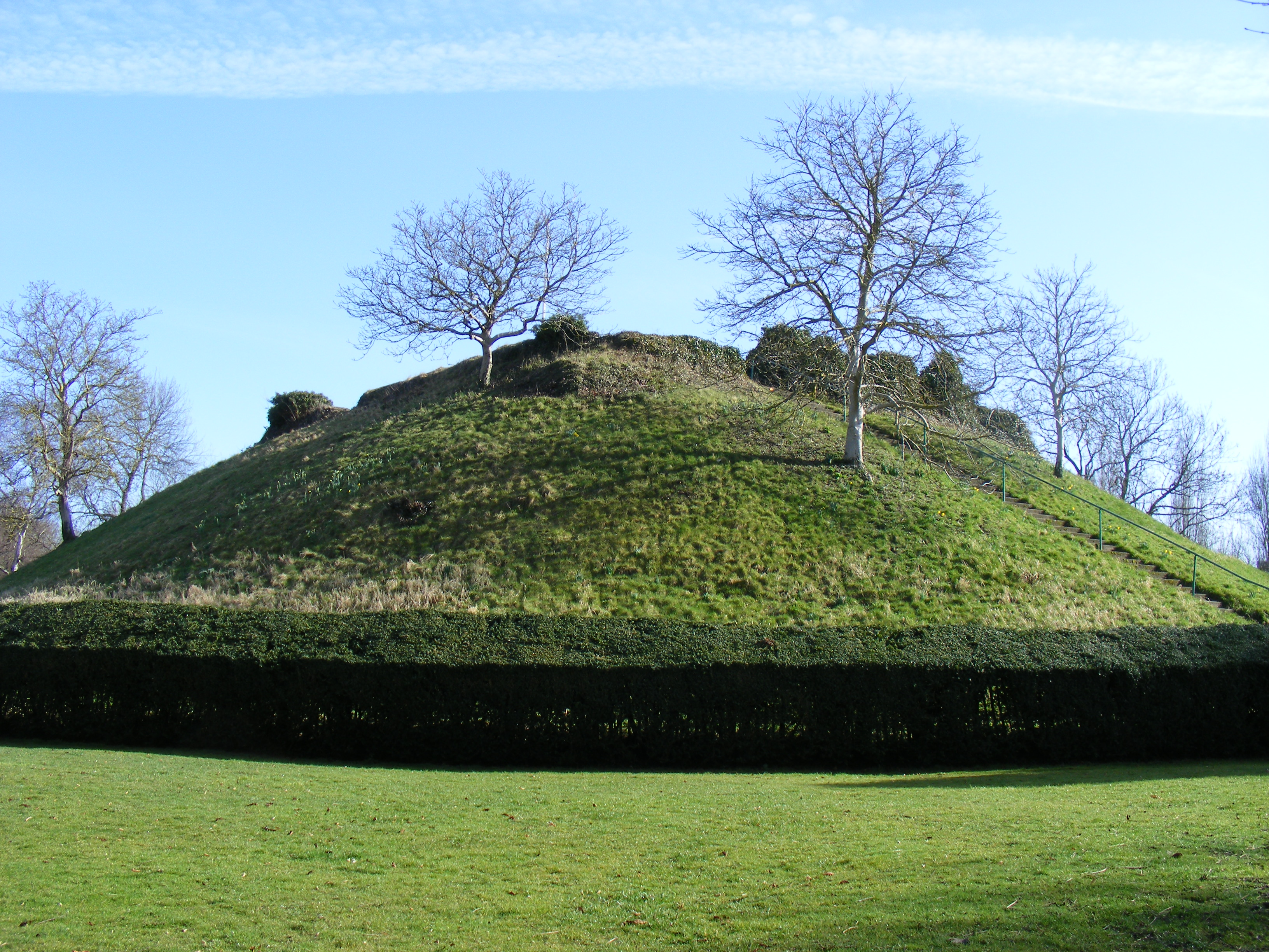 Waytemore Castle, Bishop' s Stortford This large earth mound is all that remains of the castle.